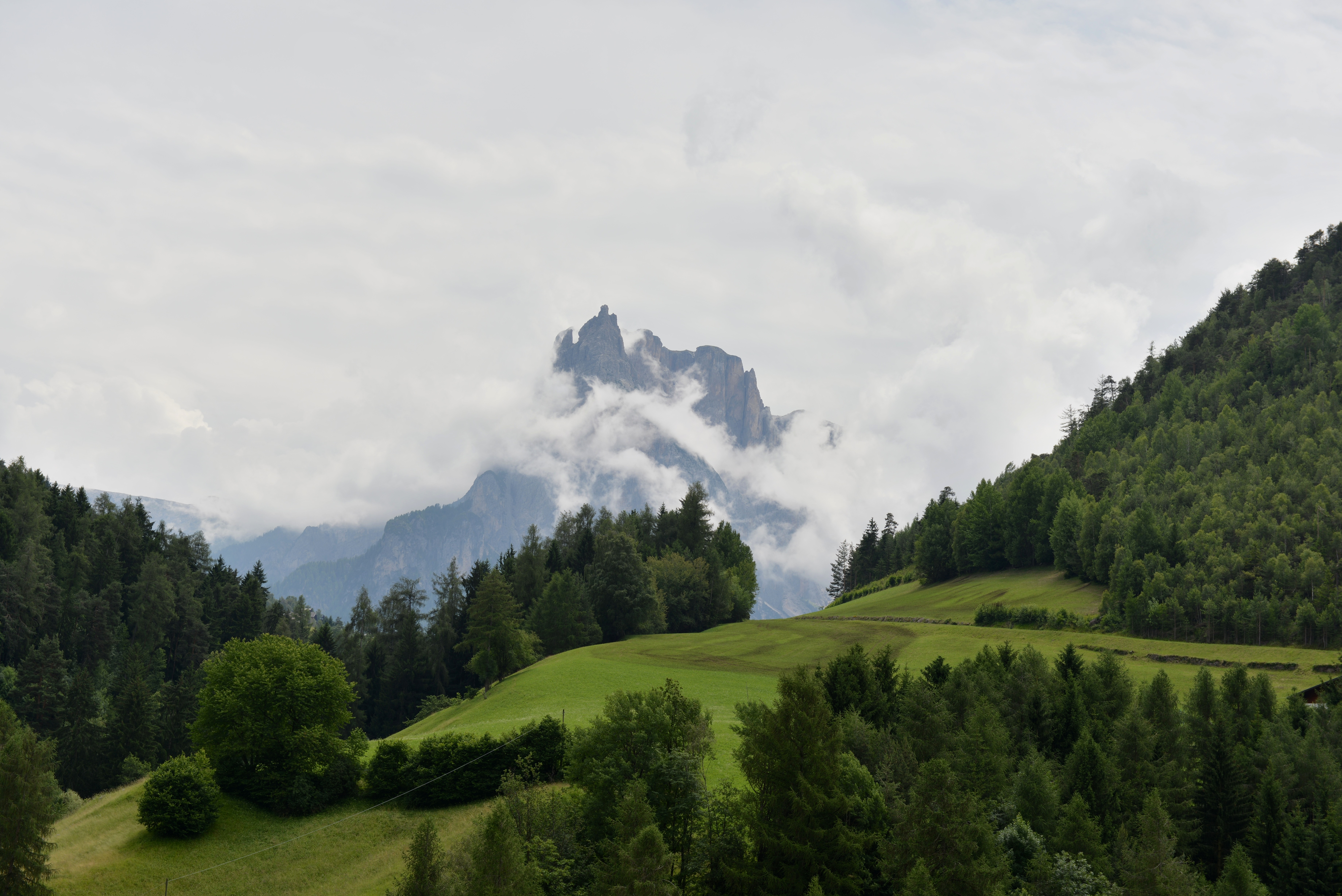 The Schiliar from Kastelruth